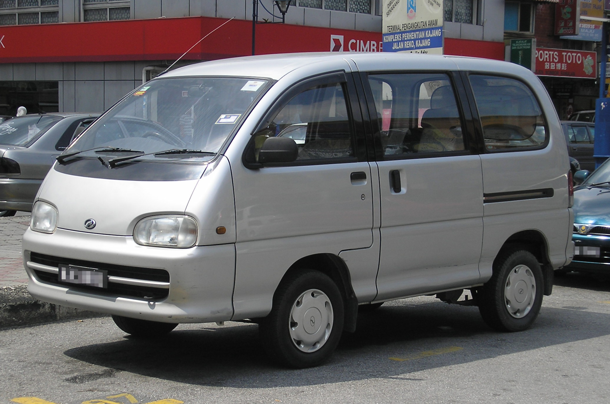 Front-side shot of a first generation, first facelift (a very minor one to be precise) Perodua Rusa, in Kajang, Selangor, Malaysia.